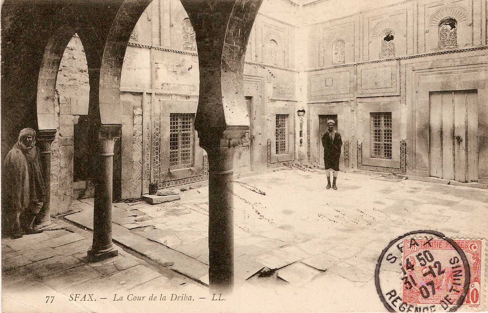 Postal card representing the courtyard of Dar Jallouli in Sfax (Tunisia)